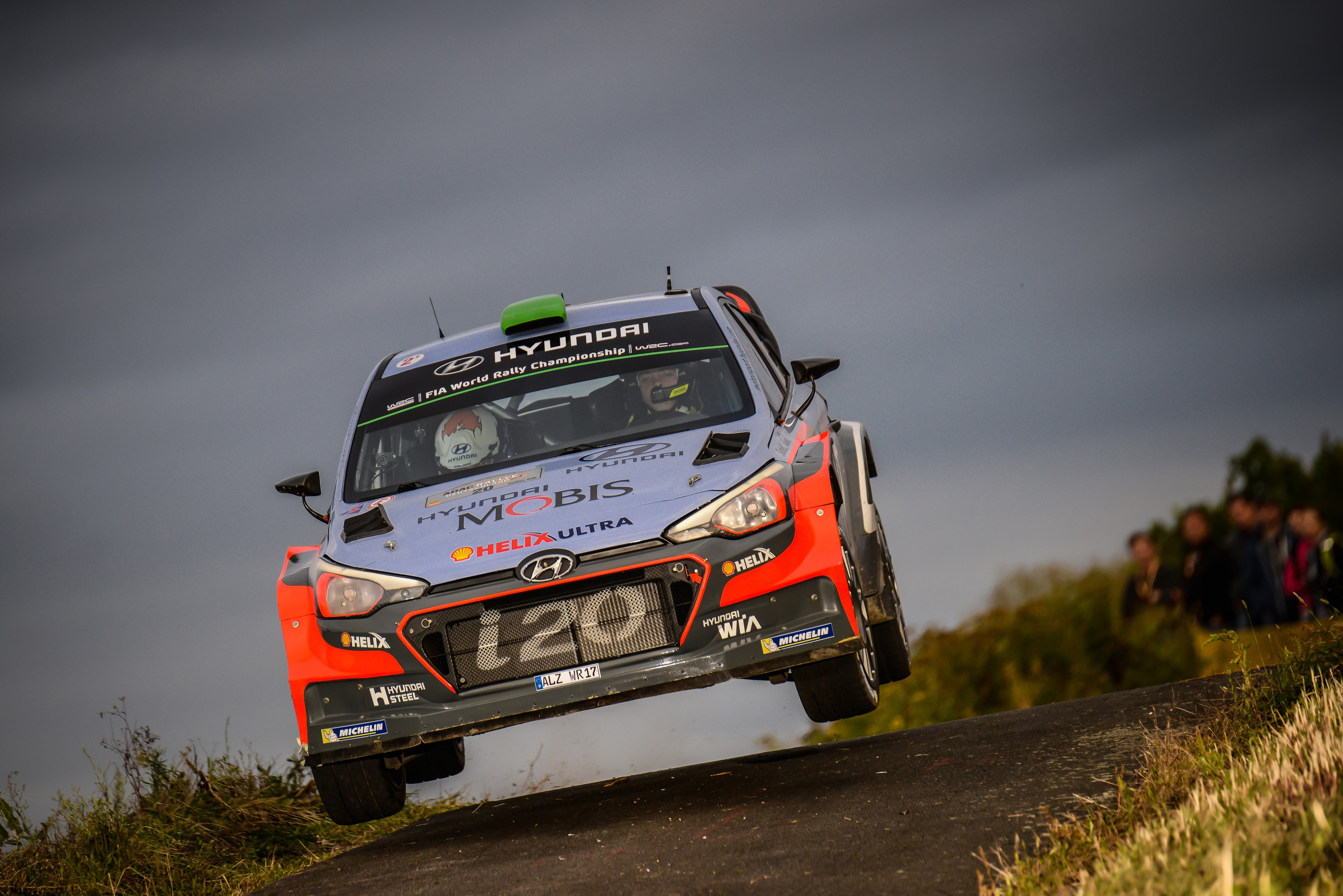 Hayden Paddon and co-driver John Kennard in their Hyundai i20 WRC at the 2016 Rally Germany, Round 9 of the 2016 World Rally Championship.